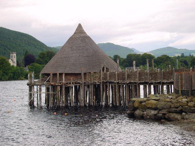 Crannog. A defensive home built about 5000 years ago in Loch Tay.